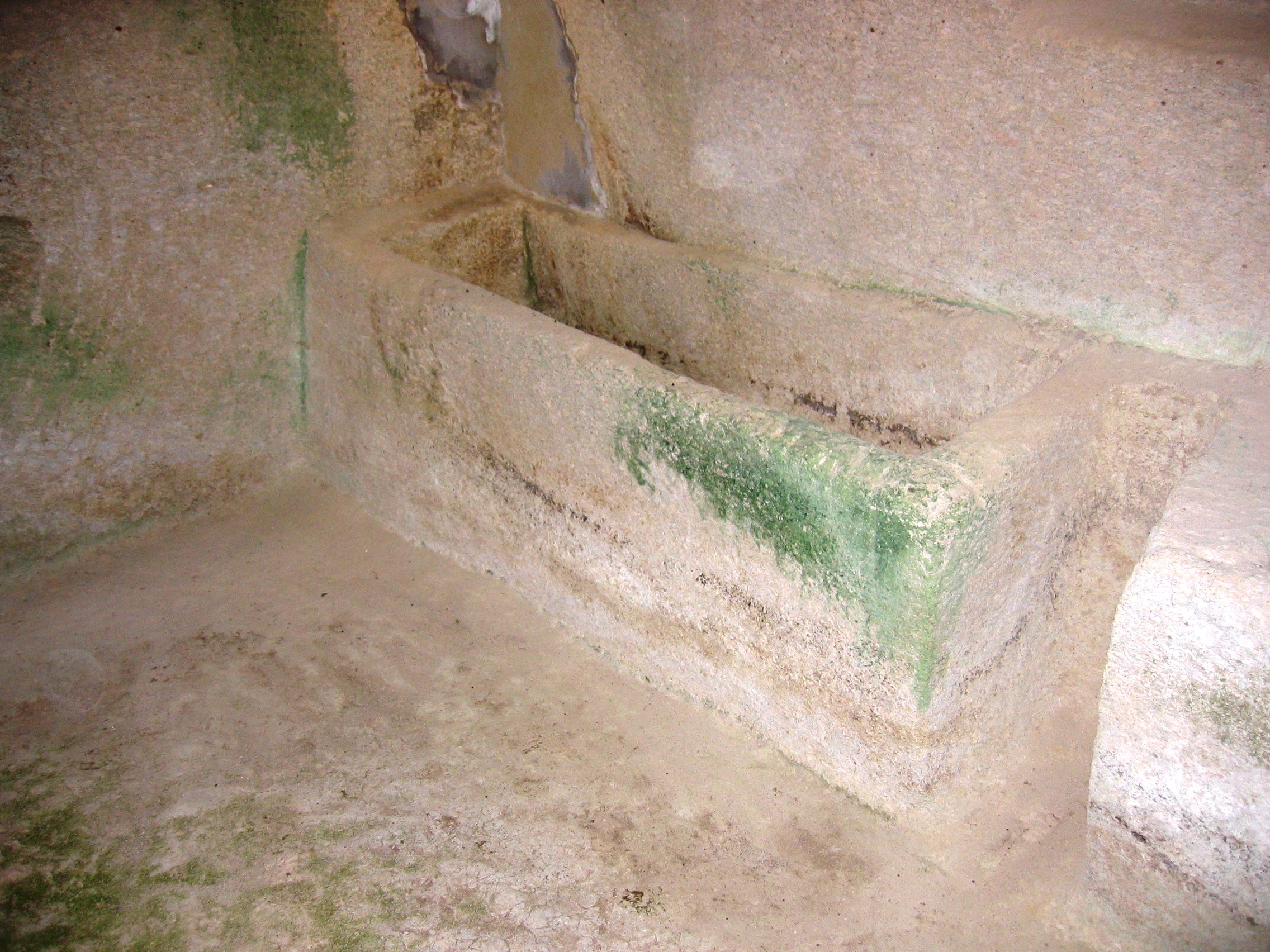 Monte Sirai, Sardinia (Italy)